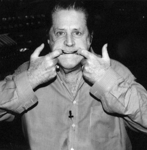 Brian Wilson in 2005, cropped from larger photo